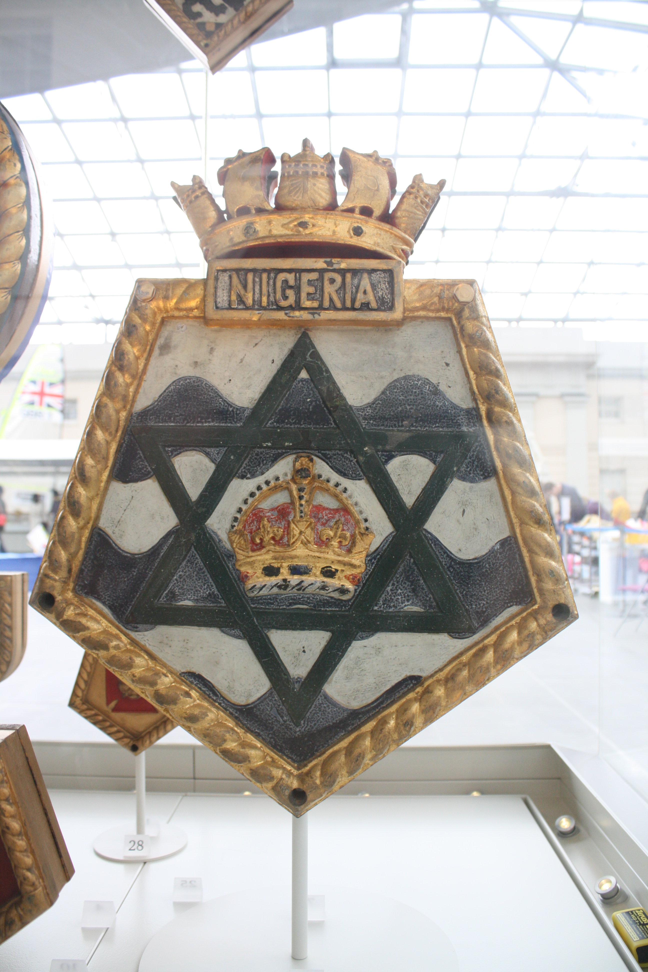 Ship heraldry at the NMM